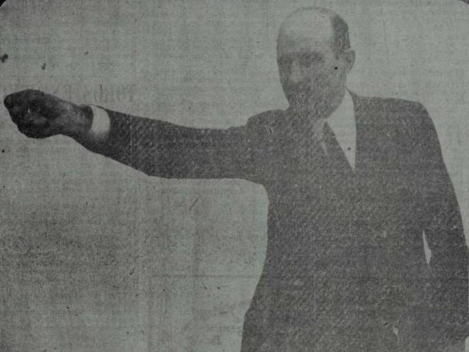 Pradera speak